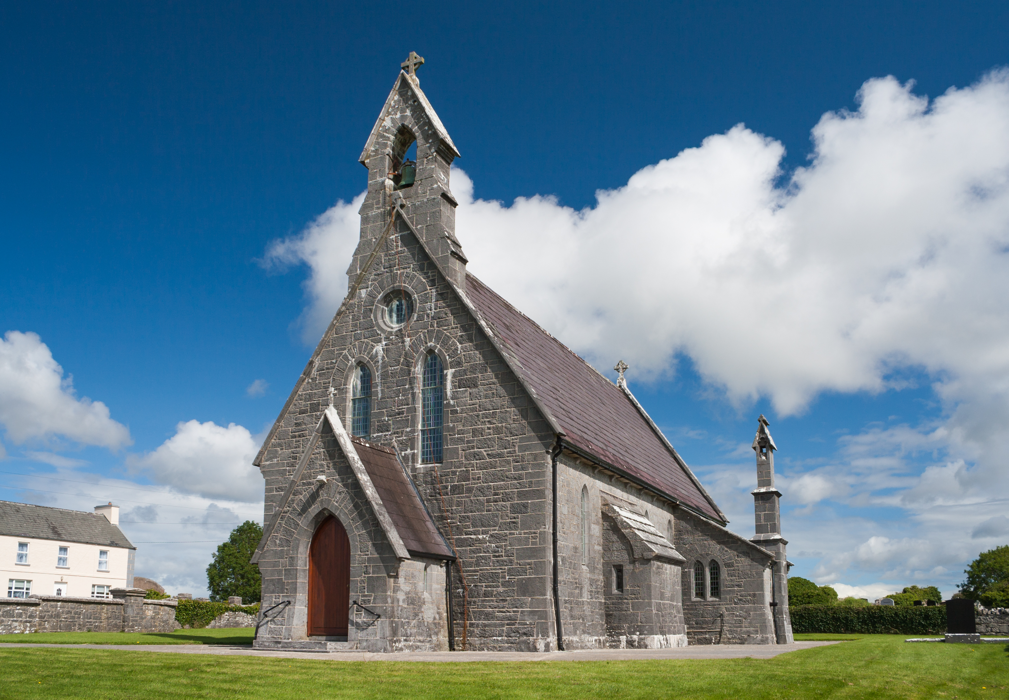 St. Mochua's Church, erected in 1943.